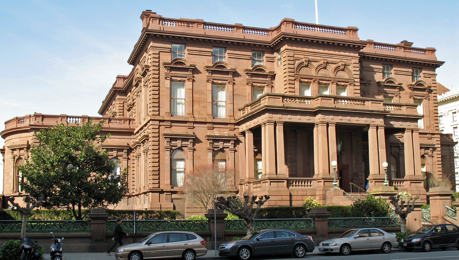 National Register of Historic Places in San Francisco, California. James Clair Flood Mansion (Pacific-Union Club), 1000 California St., San Francisco, California, USA. Photographed March 1, 2008 by Mike Hofmann from south side of California St. between Taylor St. and Mason St. Presently home to the Pacific-Union Club.